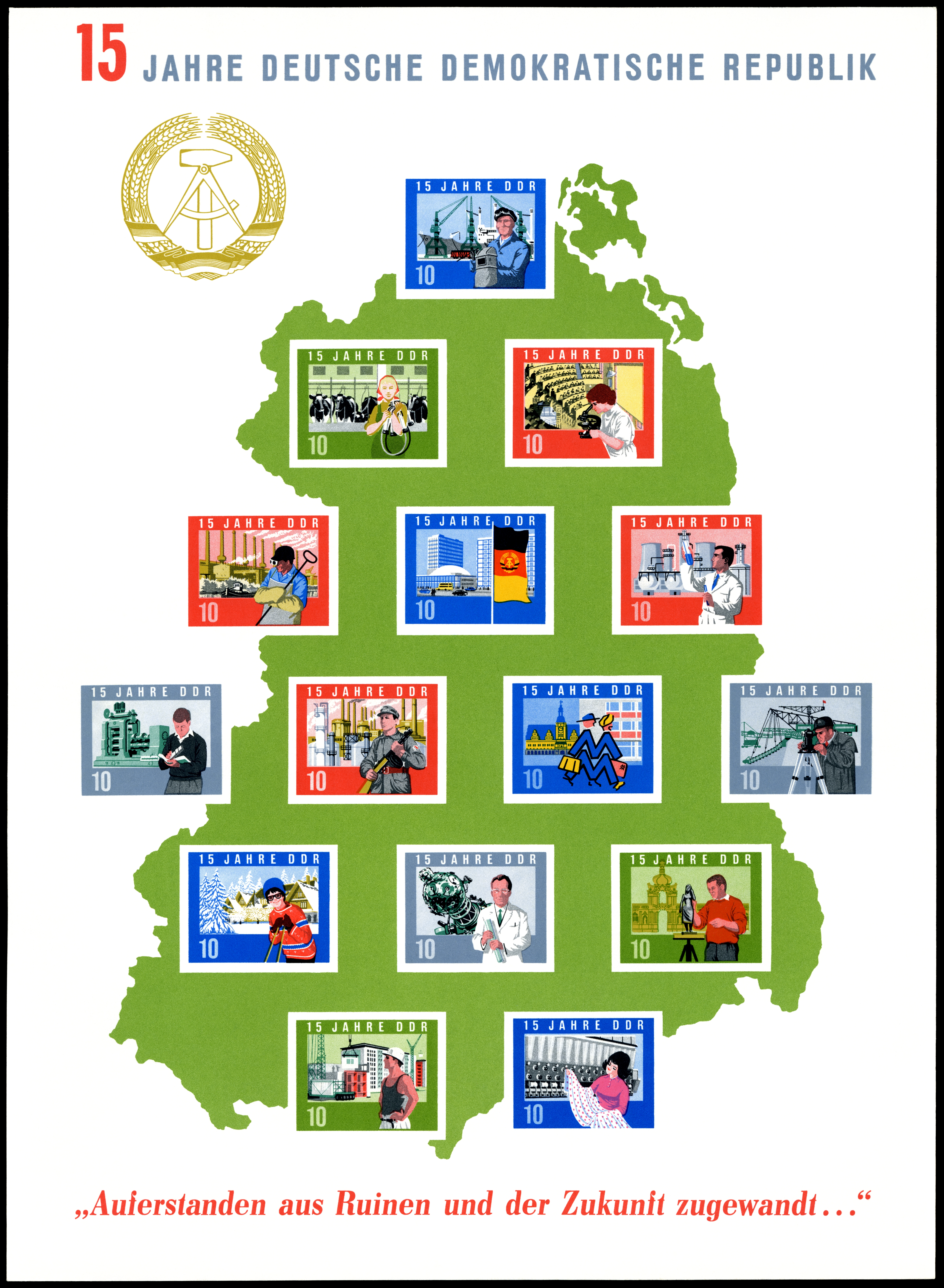 Ausgabepreis: 150 Pfennig First Day of Issue / Erstausgabetag: 6. Oktober 1964 Auflage: 1.200.000 Entwurf: Henning und Dorfstecher Druckverfahren: Offsetdruck Michel-Katalog-Nr: Ländercode-MiNr: Block 19 Licensing This file is most likely NOT in the public domain. It has been marked for review, and will be deleted in due course if the review does not find it to be in the public domain.This file was previously considered to be in the public domain as a German stamp; it is possible that it is in the public domain for other reasons, in which case a new rationale will be applied as part of the review process. See below for the previous rationale. Previous public domain rationale, no longer applicable This stamp is in the public domain in Germany because it was released by the postal administration of the German Democratic Republic or the Soviet occupation zone (Deutschen Post der DDR) whose legal successor is the Federal Republic of Germany. Thus it is an official work according to German copyright law (§ 5 Abs. 1 UrhG).